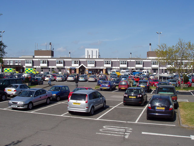 James Paget University NHS Foundation Trust Hospital Main entrance of this 2-storey hospital serving Great Yarmouth and environs, with car park in the foreground. The main building dates from the 1970s: similarly-designed hospitals were also built at Bury St Edmunds, Kings Lynn and Hinchingbrooke (Huntingdon)